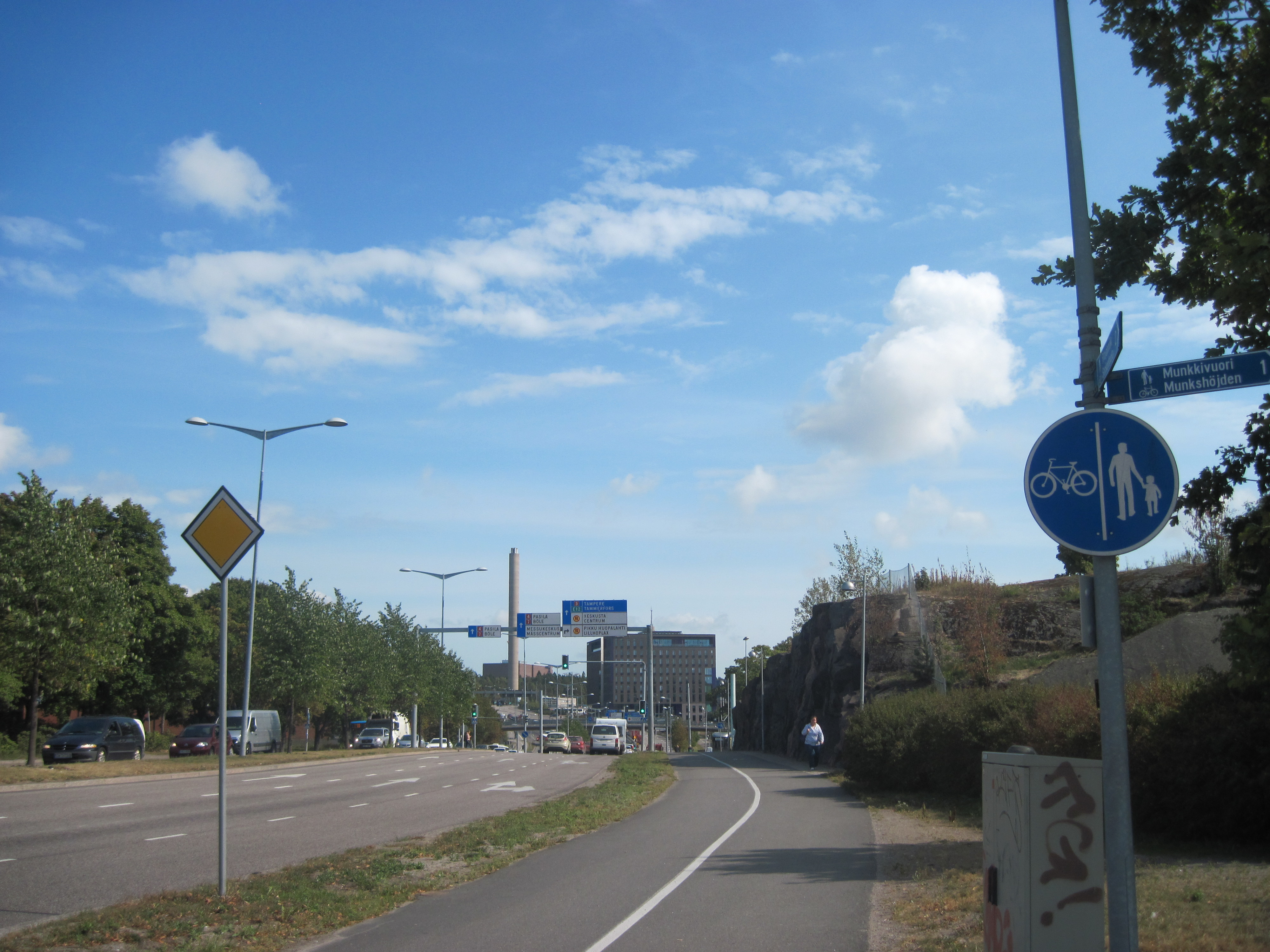 Eastern part of Vihdintie at Pikku Huopalahti, Helsinki